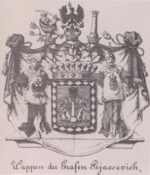 Coat of arms of the Pejačević (Pejácsevics, Pejacsevich, Пеячевичи, Peyachevichi), Croatian noble family